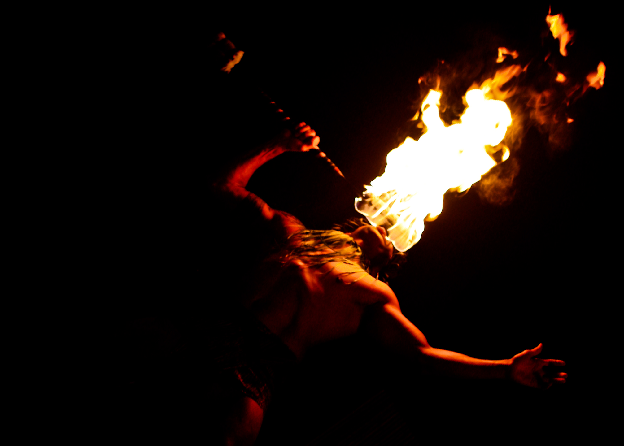 The fire knife is the Polynesian dancer's weapon of choice, skillfully wielded here during a luau ceremony on Hawaii's Big Island.